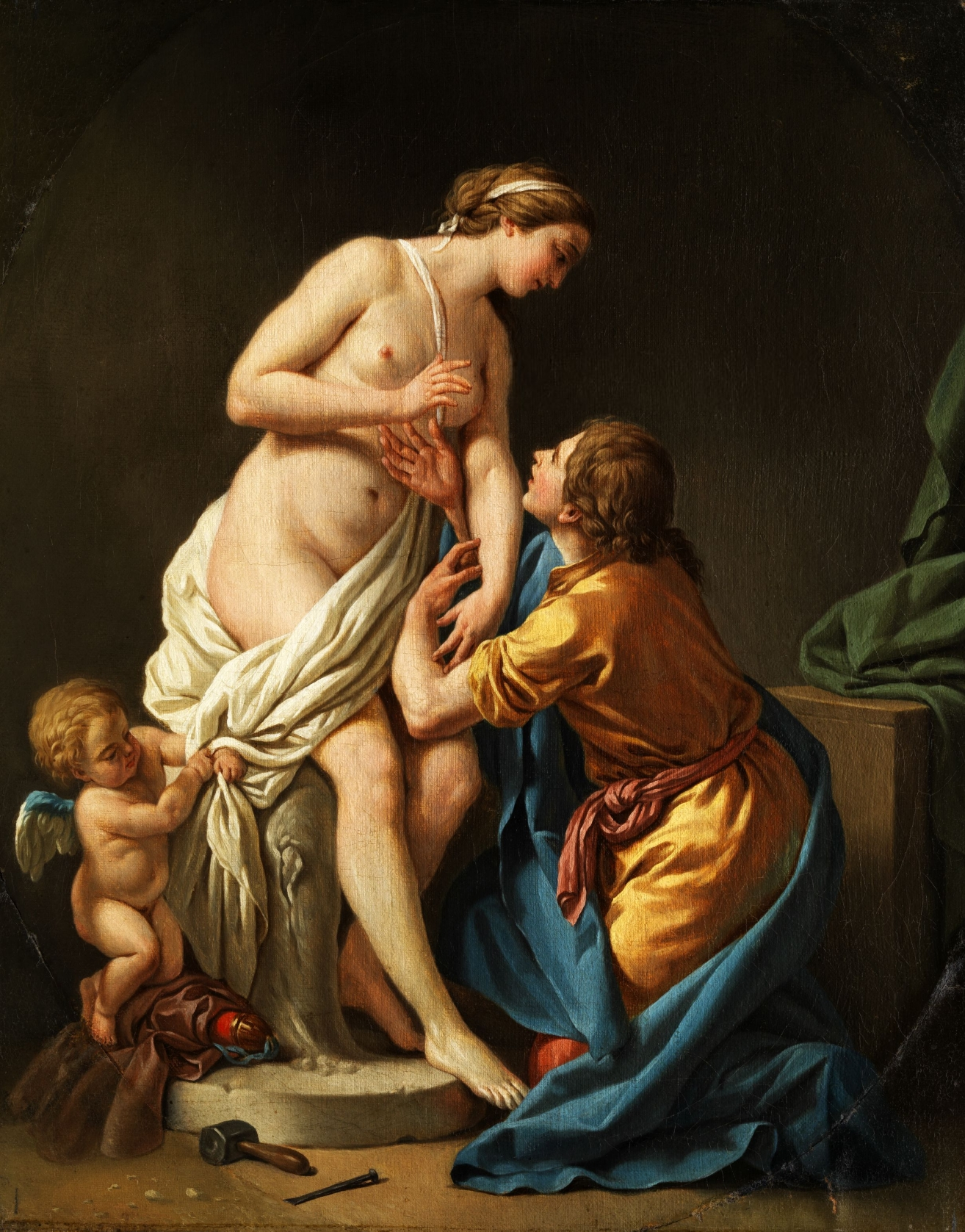 Pygmalion and Galatea. Oil on canvas, without picture frame. 56,7 x 44,5 cm.